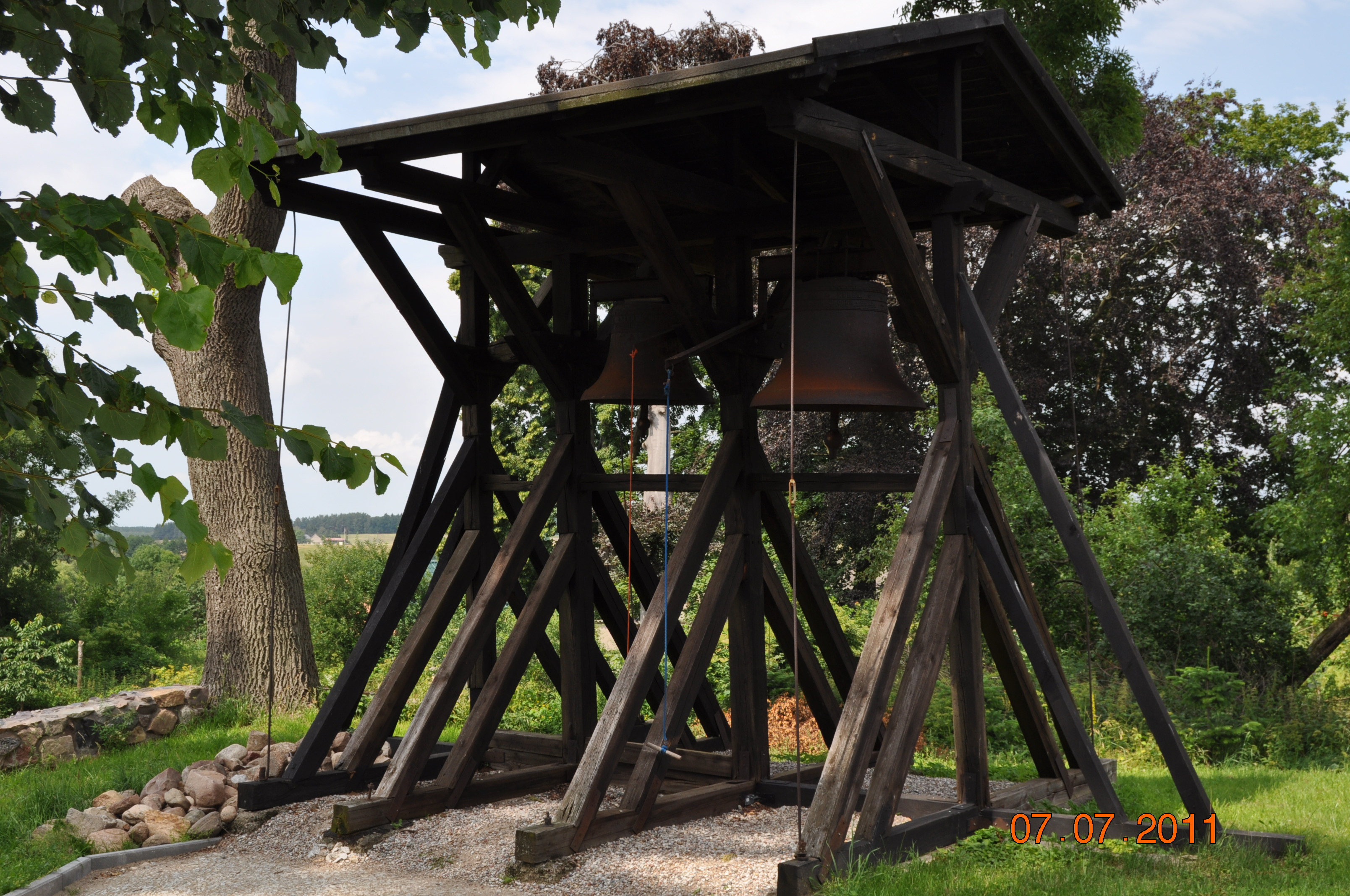 Belfry of the Exaltation of the Holy Cross church in Słonowice, Poland